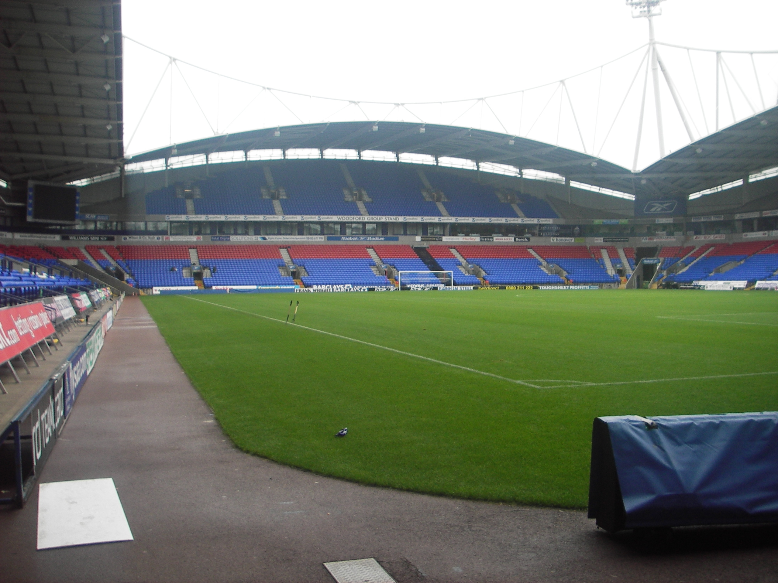 Reebok Stadium, the home ground of Bolton Wanderers.